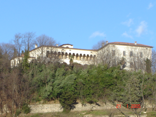 villa Benaglia in Longuelo, Bergamo